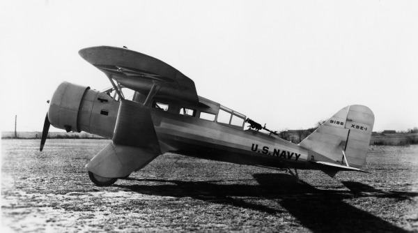 PictionID:40958145 - Catalog:Array - Title:Array - Filename:16_000382 Bellanca XSE-1 9186 USN.tif - Ray Wagner was Archivist at the San Diego Air and Space Museum for several years and is an author of several books on aviation --- ---Please Tag these images so that the information can be permanently stored with the digital file.---Repository: San Diego Air and Space Museum